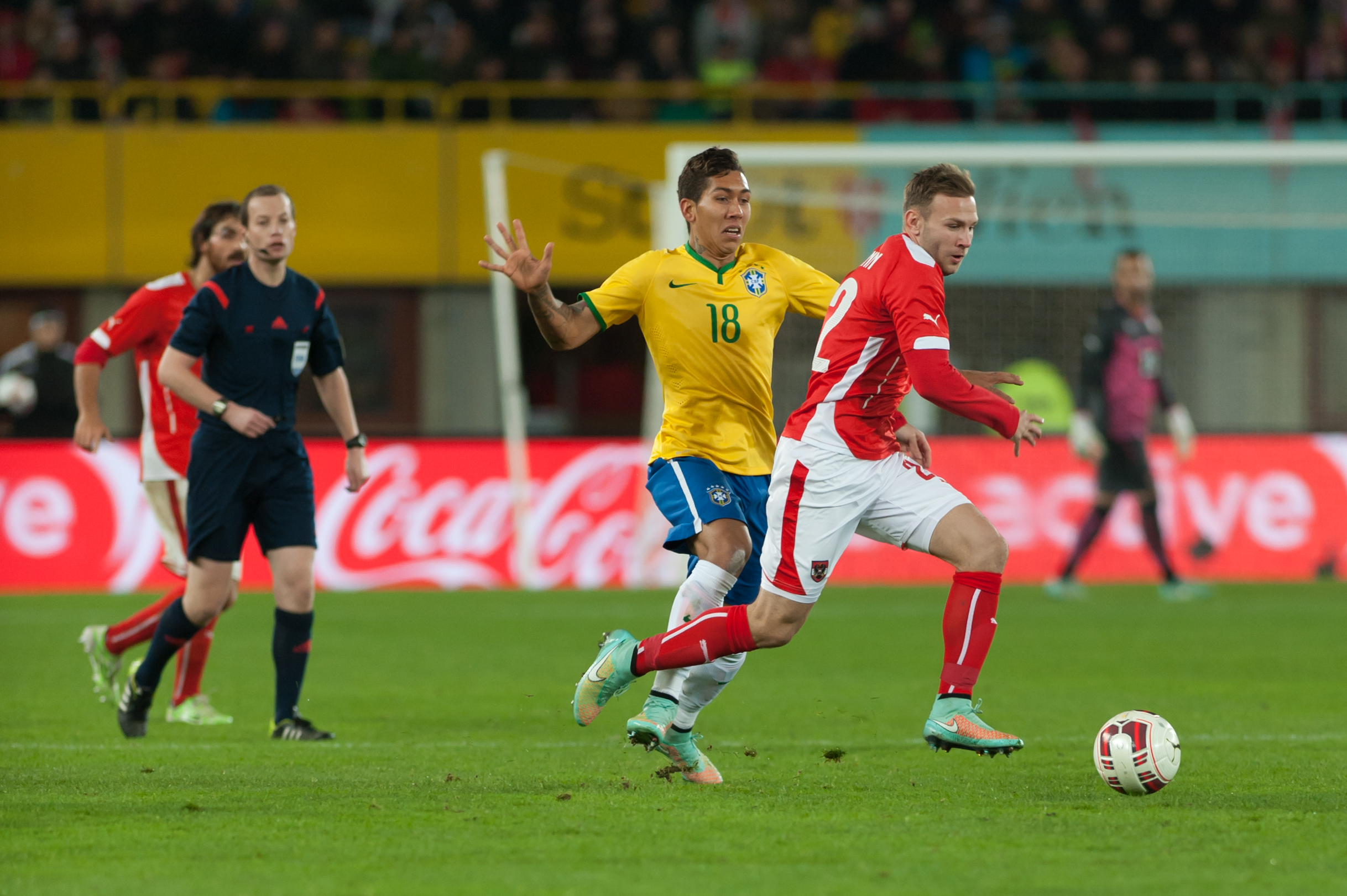 International Friendly Austria - Brazil November 18, 2014: Firmino, Andreas Weimann